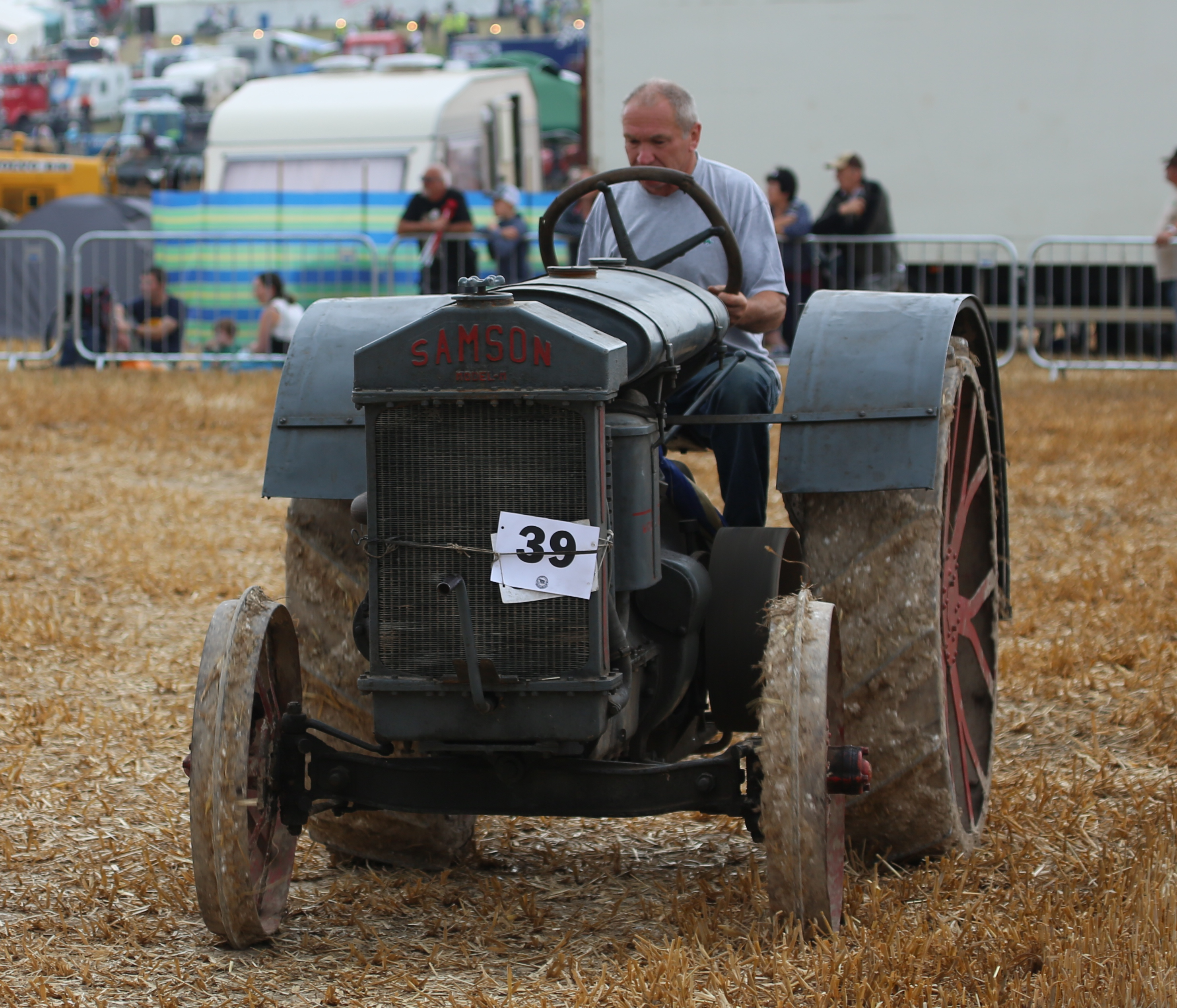 Photo of a 1920 Samson M 20HP Tractor